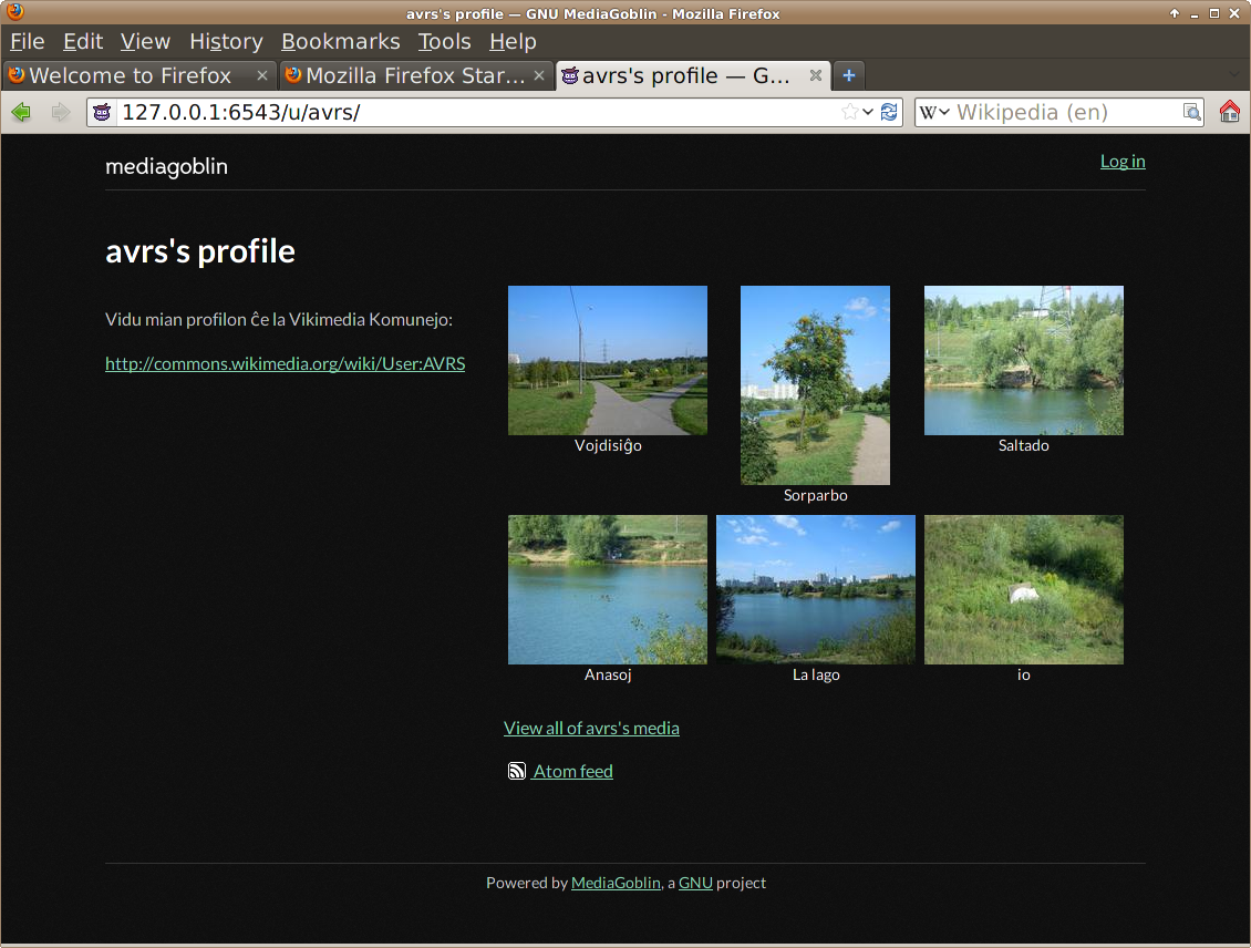 Mozilla Firefox 9.0.1 in English, for GNU/Linux x86_64, is displaying a user page at a GNU MediaGoblin 0.2.0 -based website. The GTK theme is “Shiki Dust”.